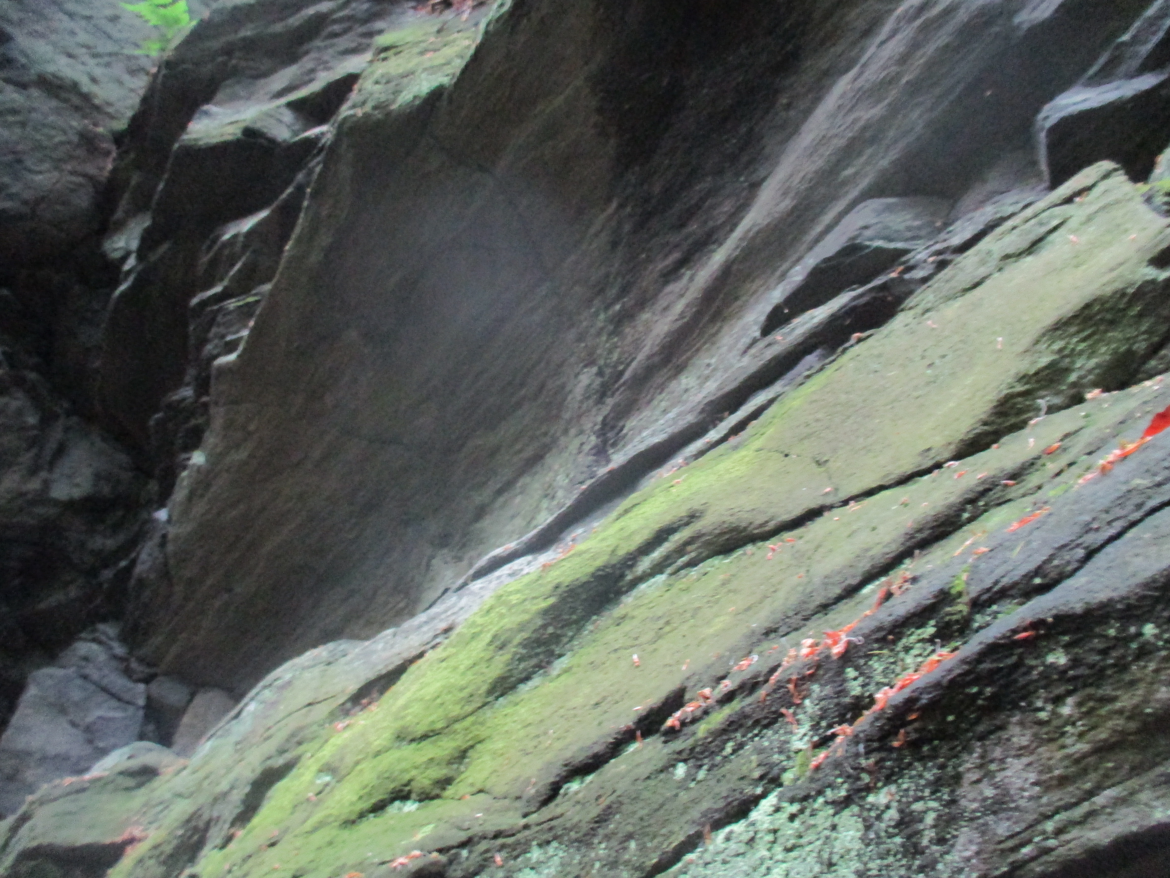 Rock formation from Freiberger Gneis with distinct traces of erosion by a tributary of Weißeritz.